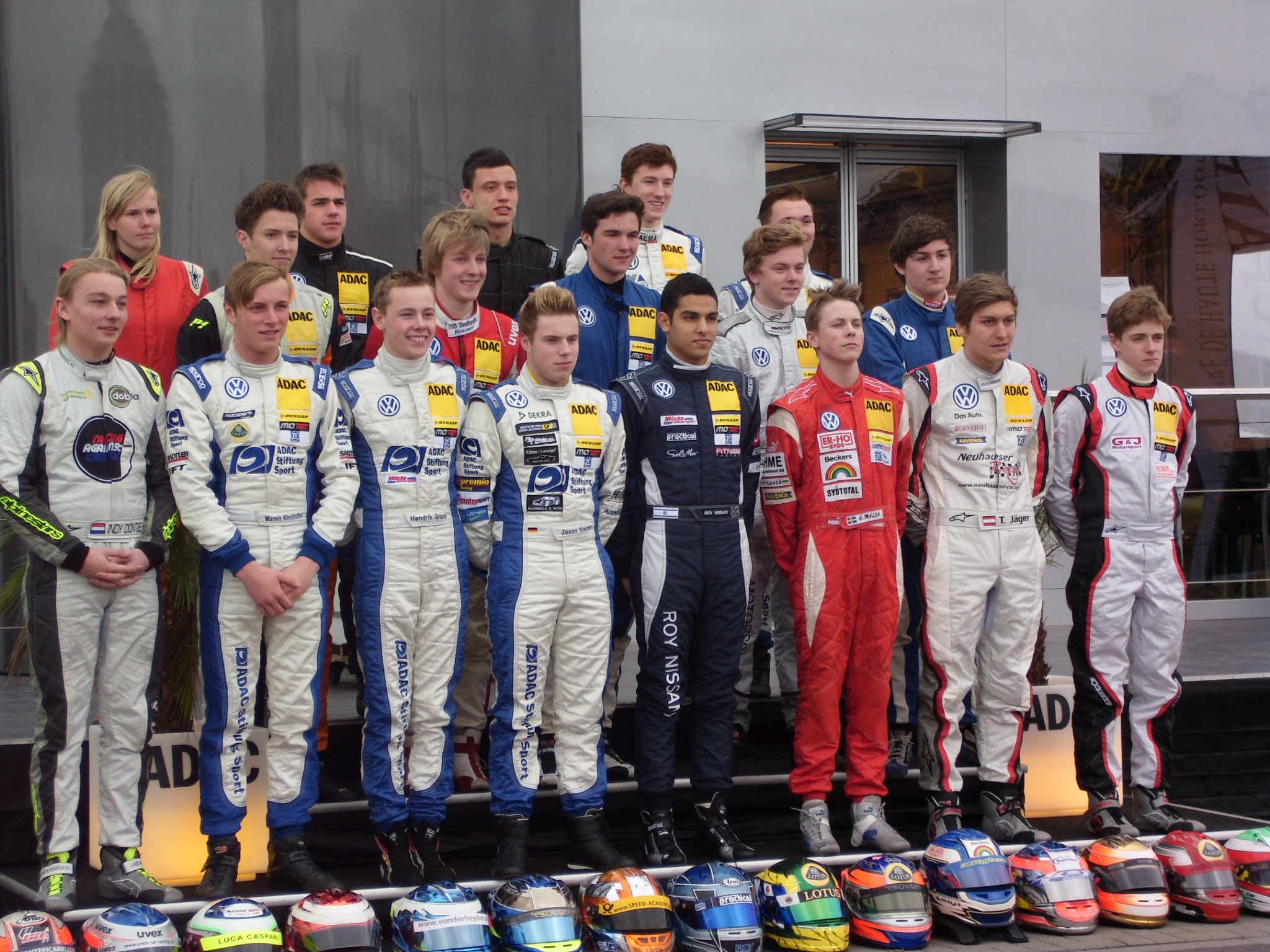 Group picture of all Formel Masters drivers from 2012. This was taken at the first round of the season in Oschersleben. From left to right: Front row: Indy Dontje, Marvin Kirchhöfer, Hendrik Grapp, Jason Kremer, Roy Nissany, Gustav Malja, Thomas Jäger, Sebastian Balthasar. Back rows: Beitske Visser, Jeffrey Schmidt, Alessio Picariello, Felix Wieland, Kuba Dalewski, Kim Alexander Giersiepen, Luca Caspari, Nicolas Pohler, Florian Herzog, Hubertus-Carlos Vier.